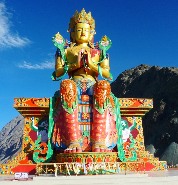 Photo taken of 110 ft (35 metre) Maitreya Buddha facing down the Shyok River, Nubra Valley near Diskit Monastery towards Pakistan as a symbol of world peace